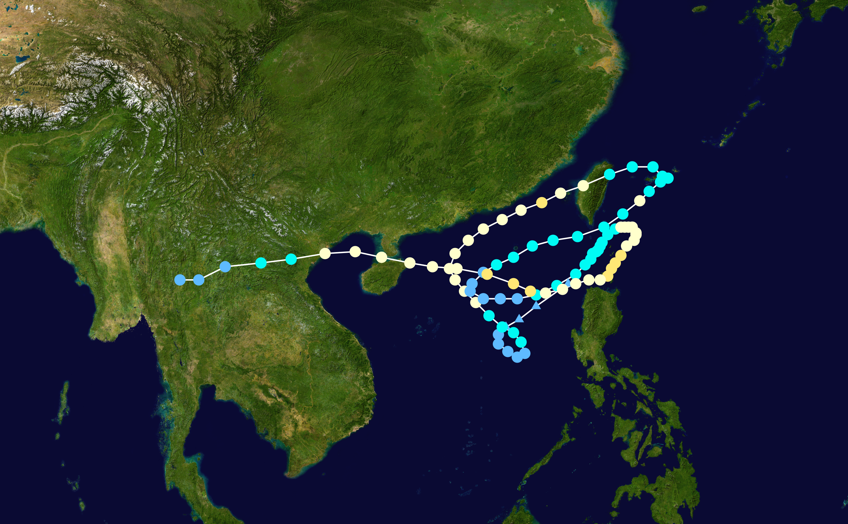 Typhoon Wayne 1986 track. Uses the color scheme from the Saffir-Simpson Hurricane Scale.